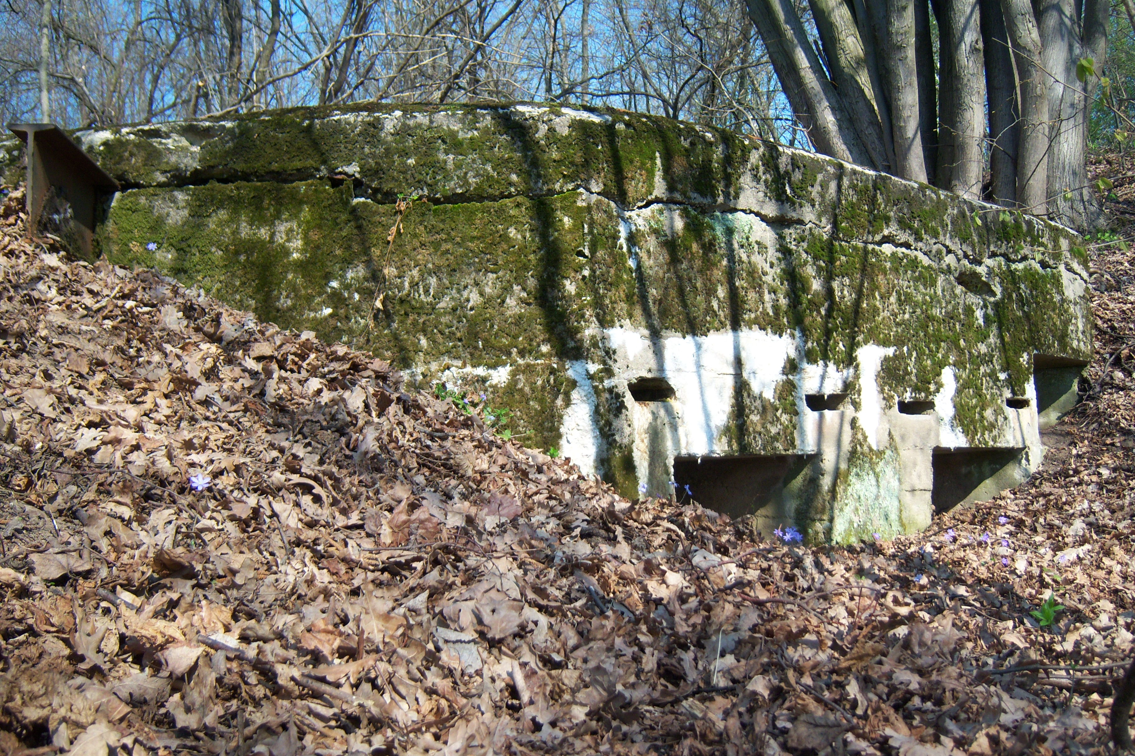 Palemonas Fort, Kaunas, Lithuania